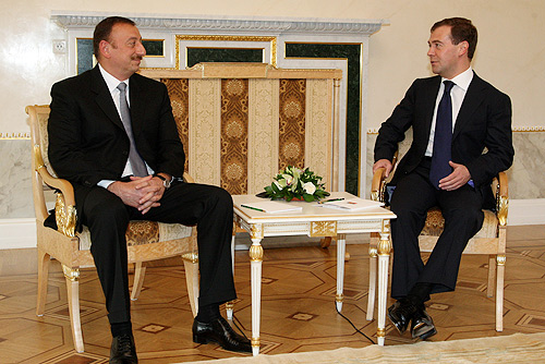 KONSTANTIN PALACE, STRELNA. With President of Azerbaijan Ilham Ajeckley.